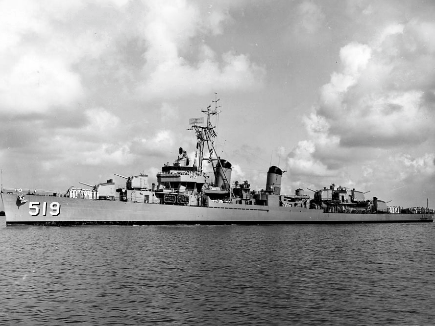 The U.S. Navy destroyer USS Daly (DD-519) steaming down the Cooper River, South Carolina (USA), in July 1952.